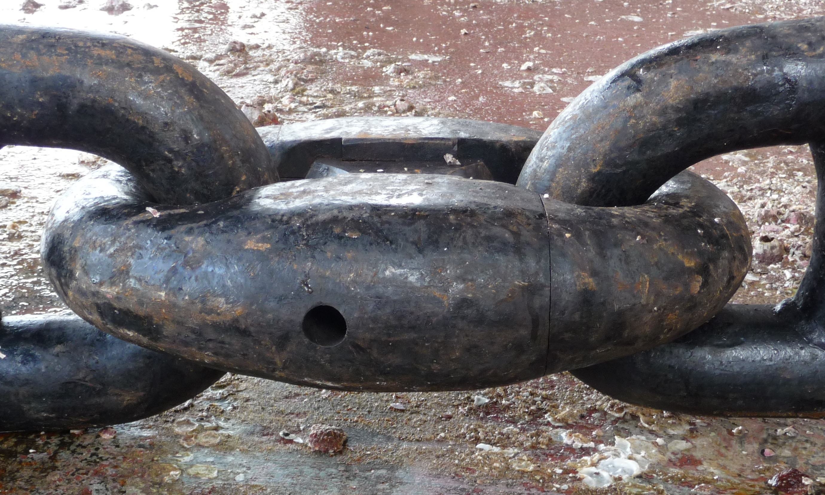 Connecting link kenter type